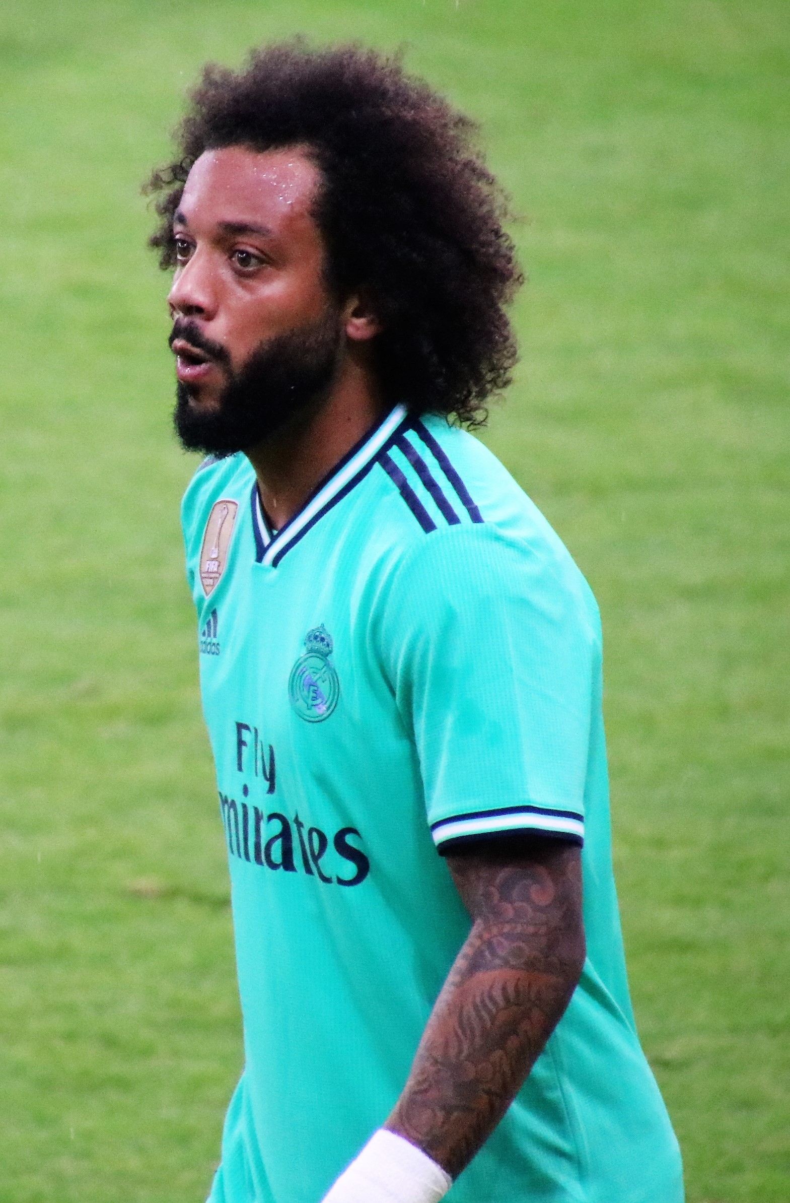 Preseason match